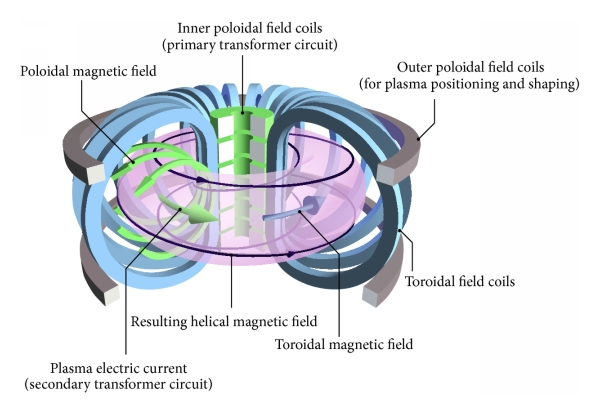 Schematic of a tokamak chamber and magnetic profile.